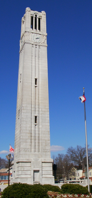 Bell Tower at North Carolina State U. Author: User:Thunder8